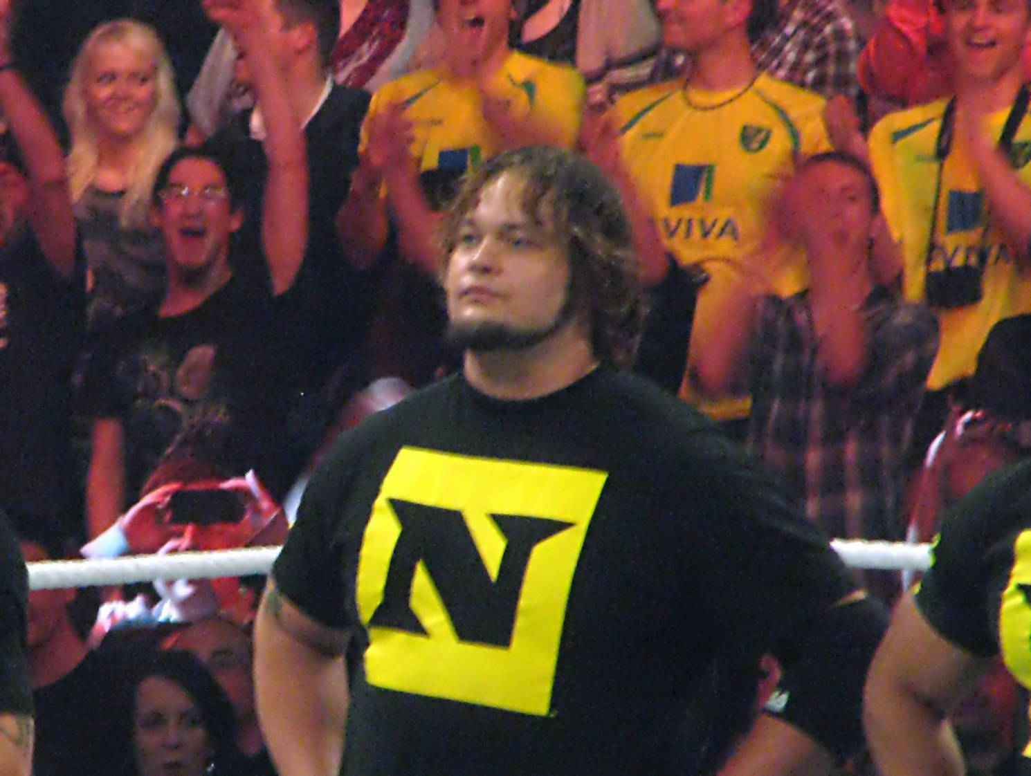 Husky Harris on Raw on November 8, 2010, in Manchester, England.